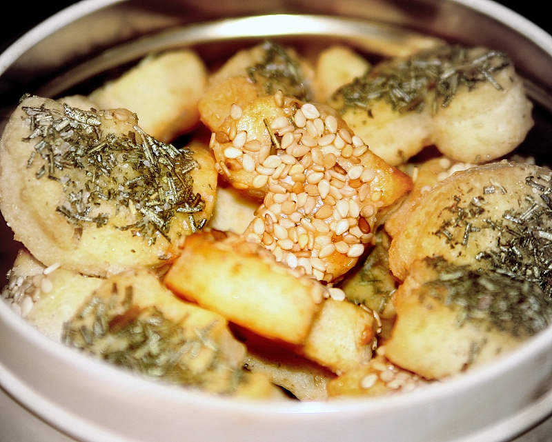 Cheese pastry made from shortcrust, Parmesan cheese and toppings of poppy seed, sesame seed and caraway